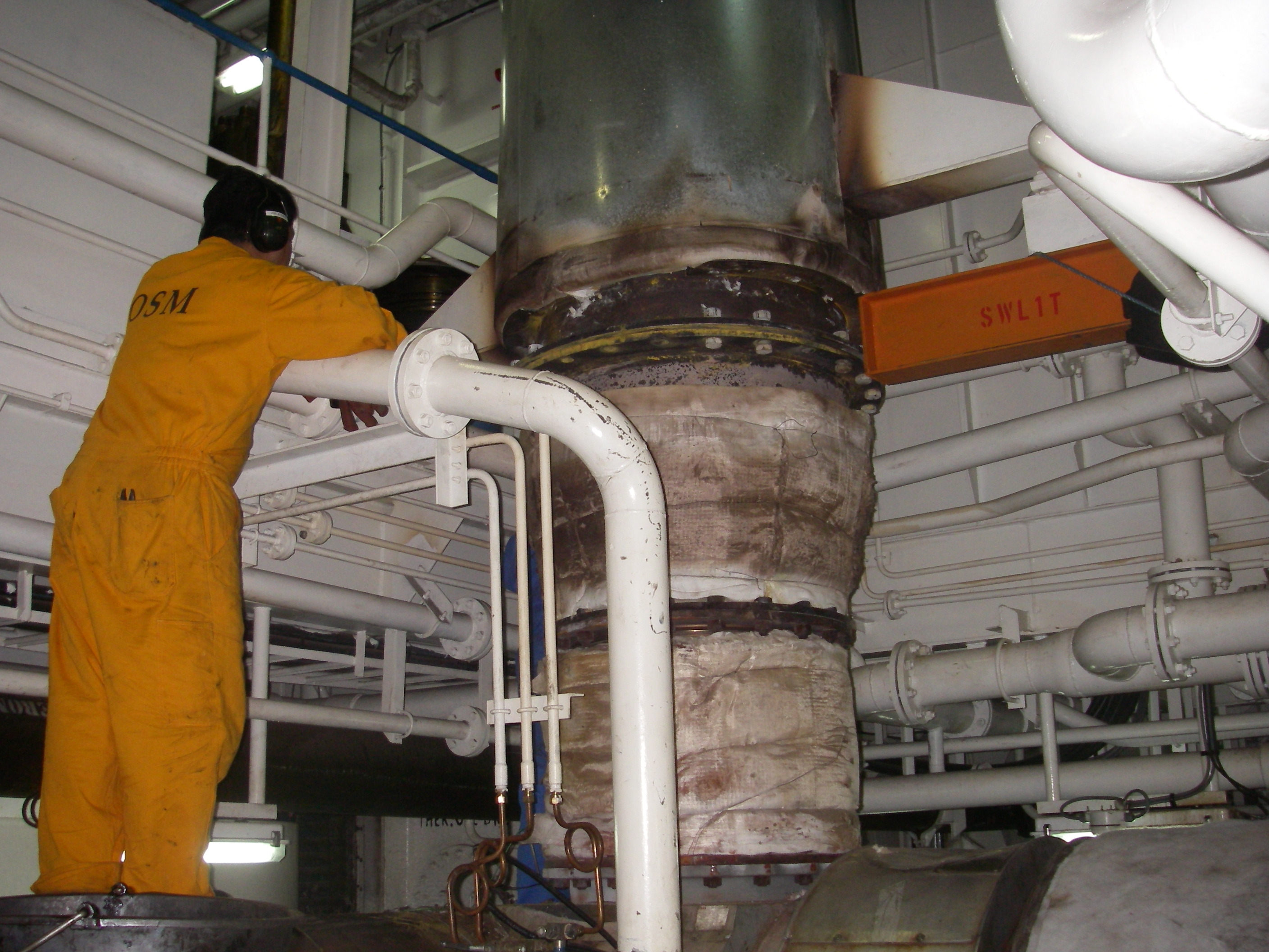 The exhaust pipe from the main engine in an oil tanker